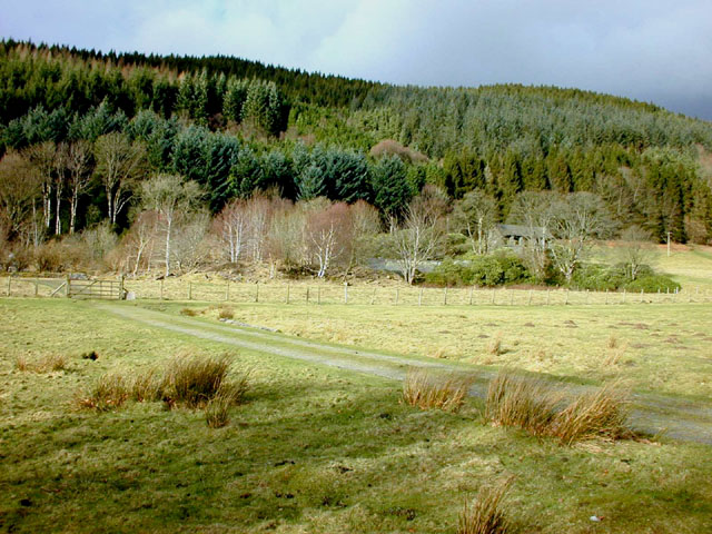 Hafod remains. The small piles of rubble the other side of the fence are all that remains of Hafod mansion. The Forestry Commission blew it up and used the debris to construct its roads when they acquired the estate.